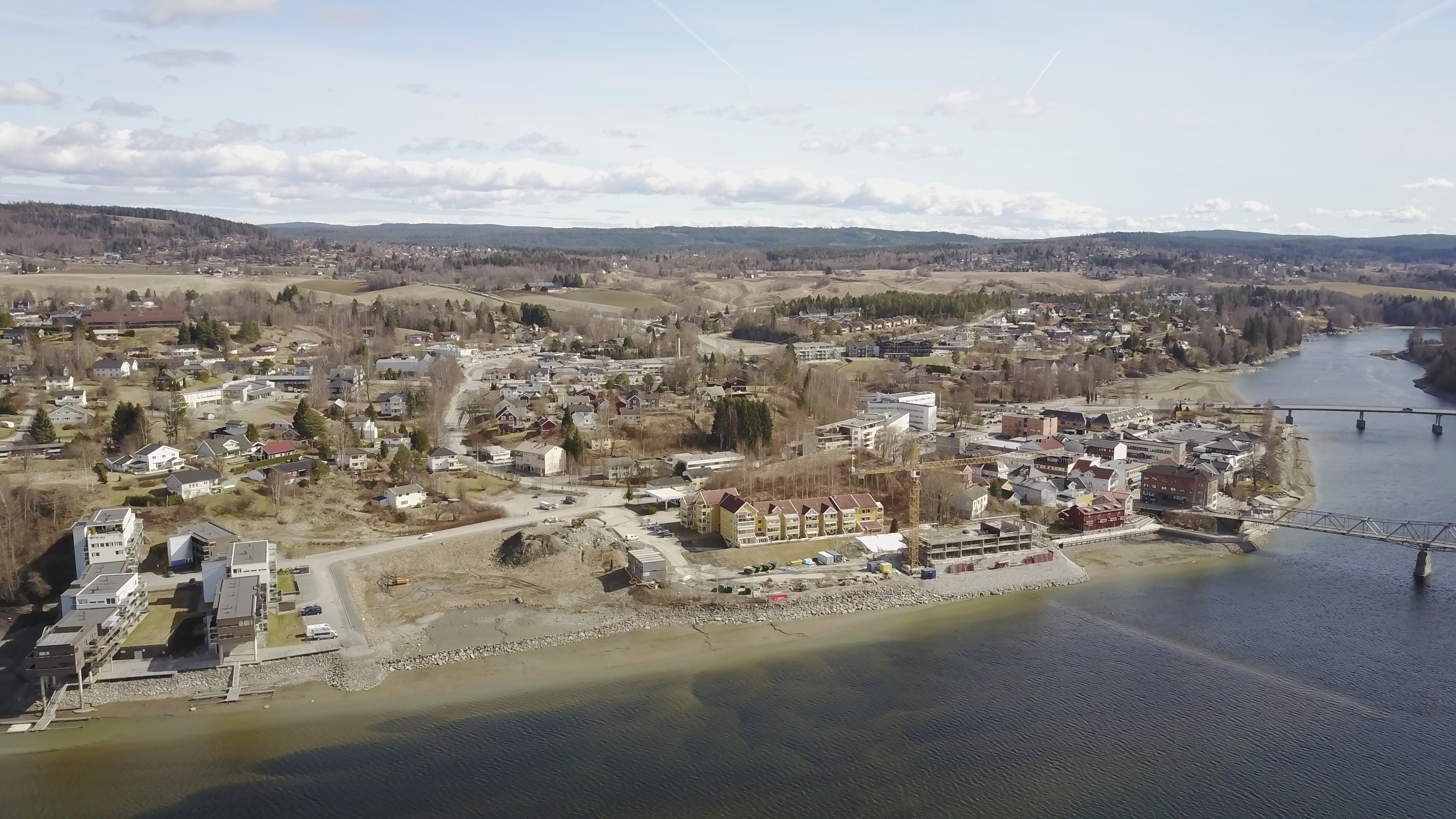 Sundet in Eidsvoll